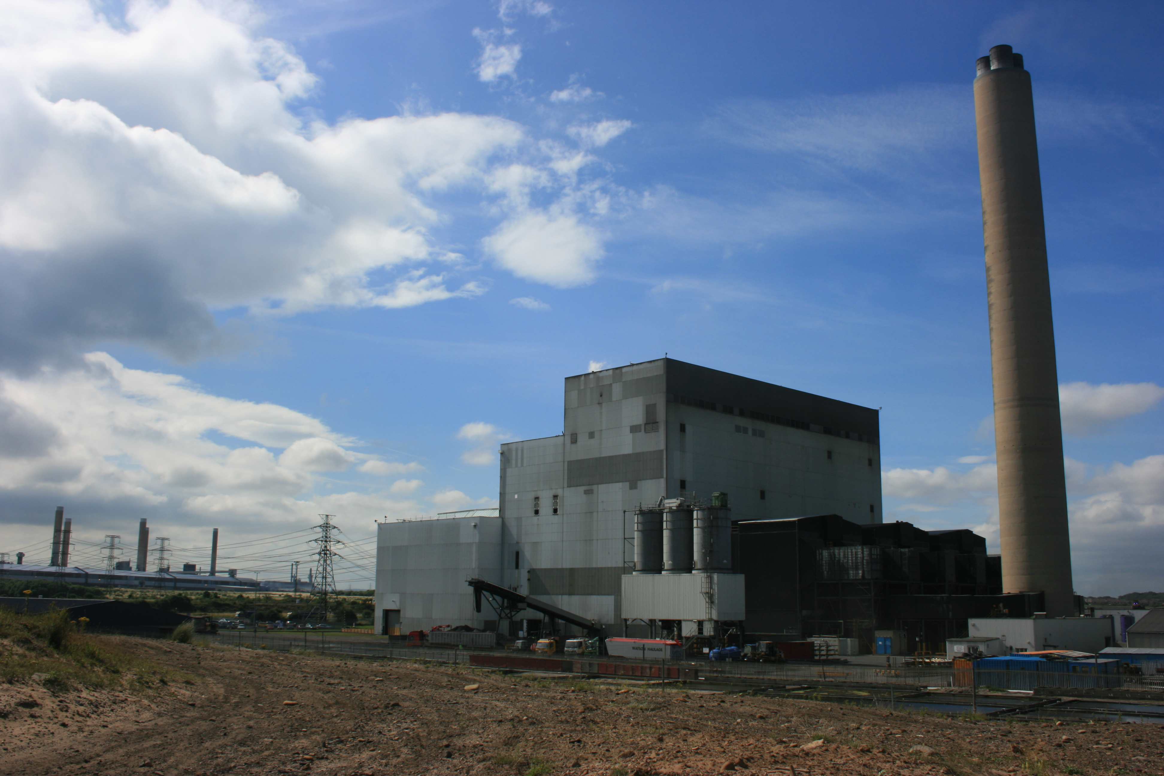 Author: Fintan264 Depicts the south east face of Lynemouth Power Station in July 2008.